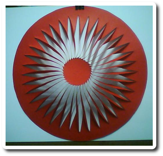 Inspired from Eric Joisel's page on Facebook. Temporarily,I moved to cutting paper. Uploaded with the Flock Browser